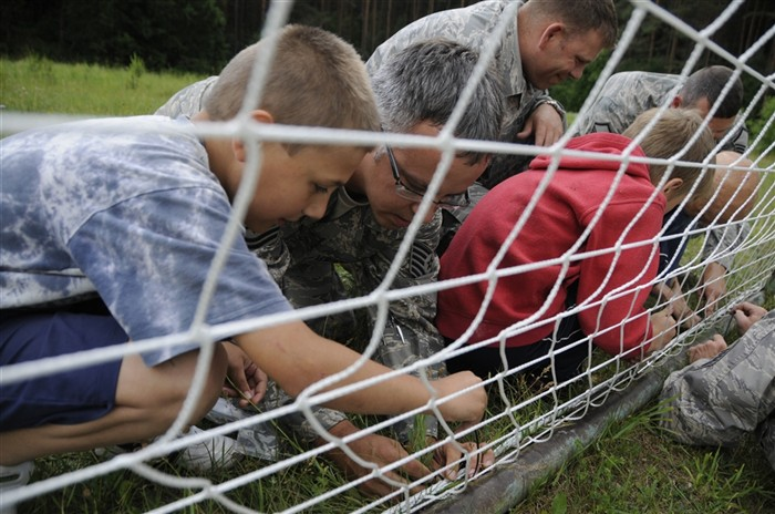 Members from the Pennsylvania National Guard visited the Pabrades Vaiku Globas Numai orphanage June 20. During the visit Guard members repaired sports and playground equipment, assisted with landscaping chores and visited and played with the children at the facility. Nearly 50 troops from the Pennsylvania National Guard are in Lithuania supporting Amber Hope 2011, a NATO exercise with more than 2,000 participants from nine countries.